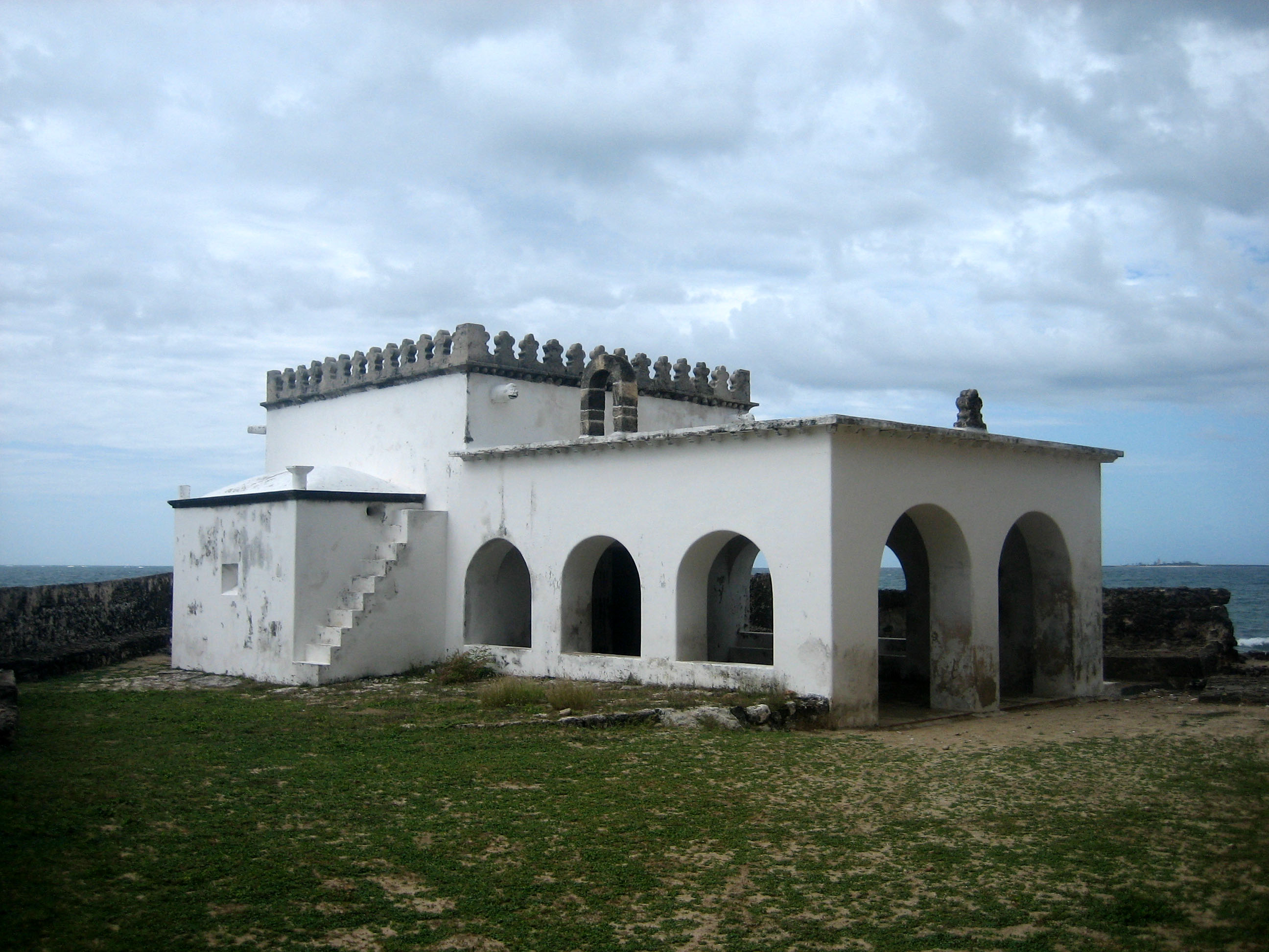 Oldest European building in the Southern Hemisphere